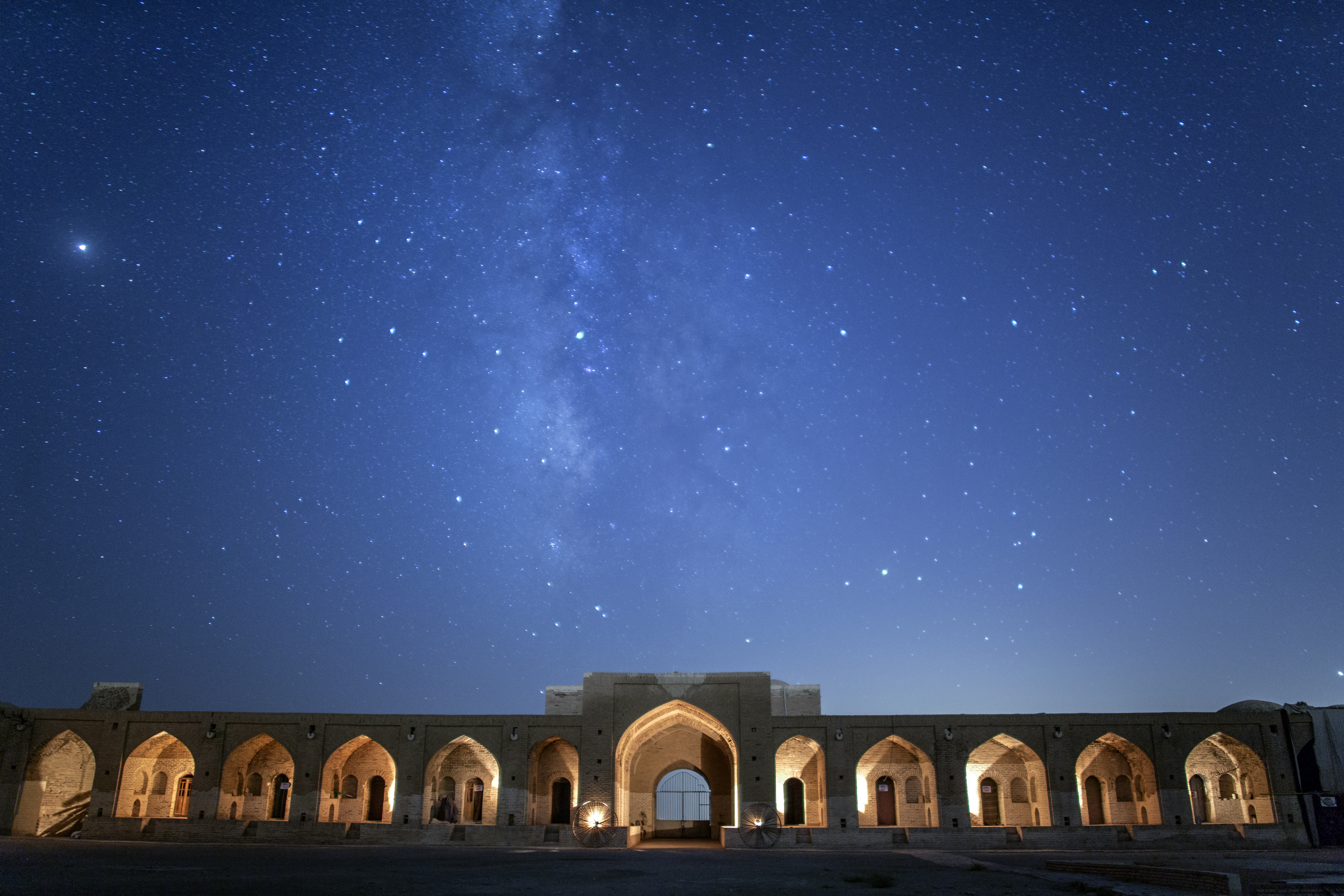 Deir-e Gachin Caravansarai is one of the greatest caravansarais of Iran which is located in the center of Kavir National Park. Its unique qualities is the reason it is called “Mother of Iranian Caravansarais”. It is located in the Central District of Qom County, 80 kilometers north-east of Qom (60 kilometers into Garmsar Freeway) and 35 kilometers south-west of Varamin. (Photo by: Mostafa Meraji, wiki loves monuments 2018)